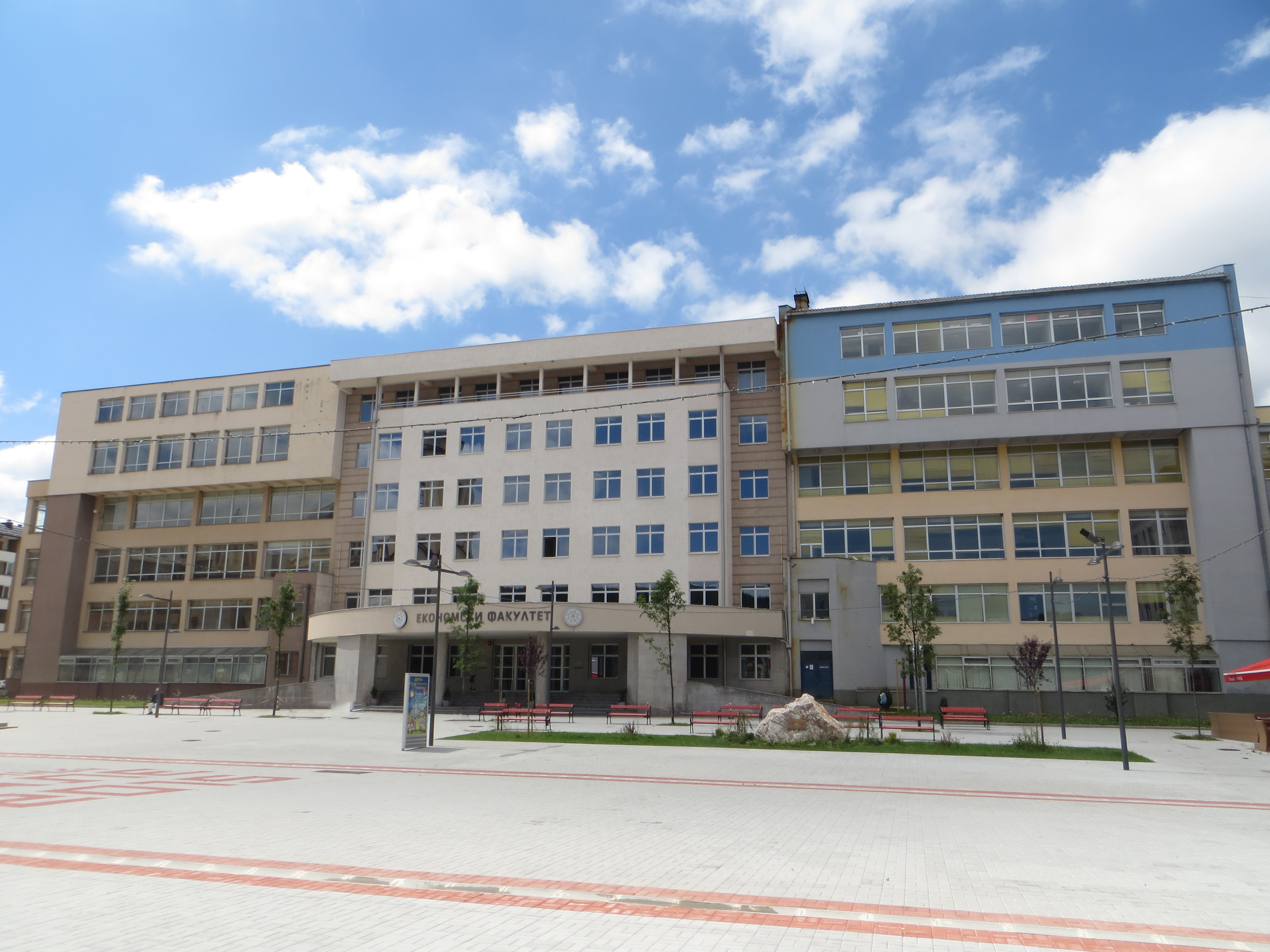 University building, Pale